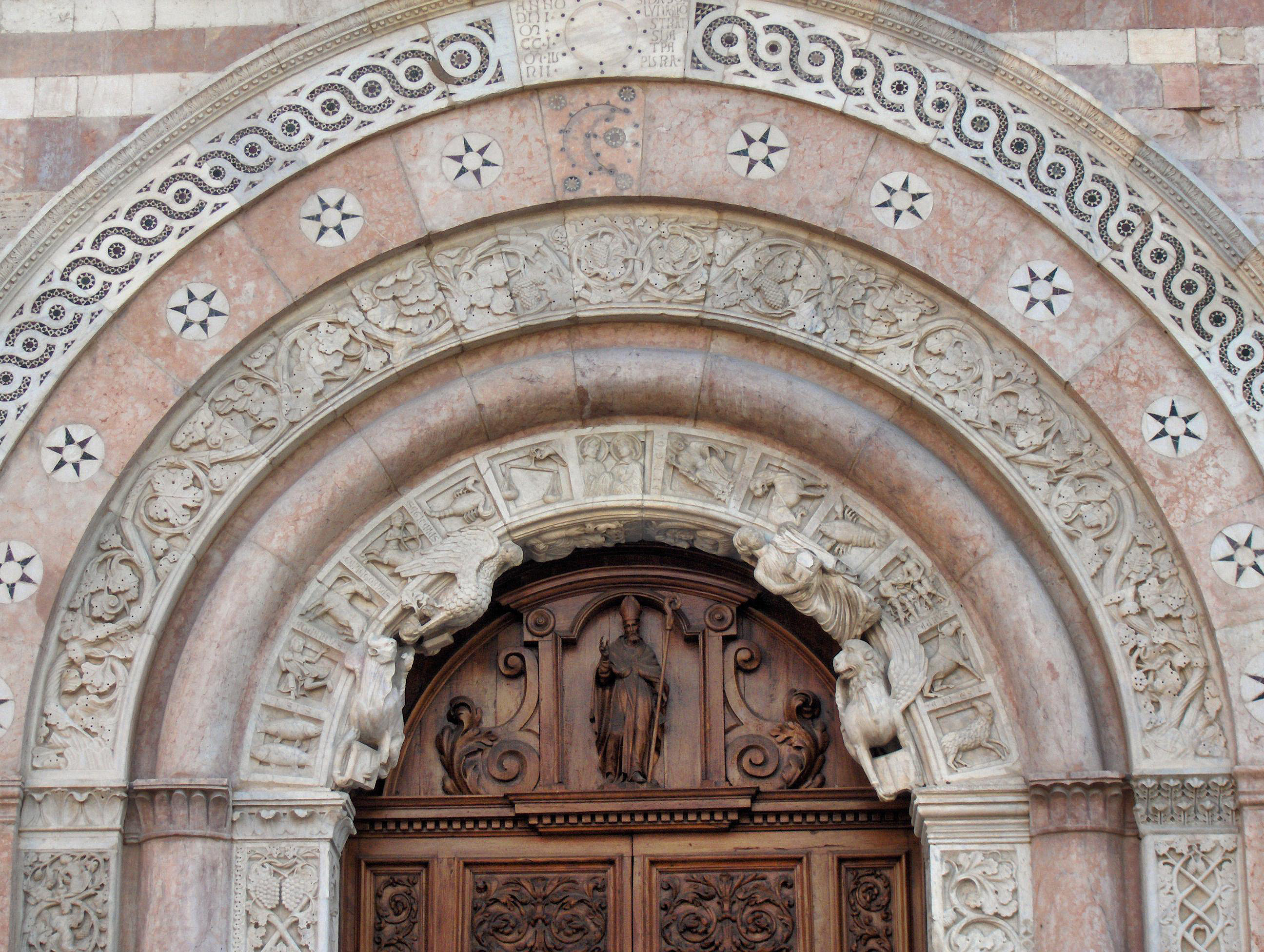 Decorations at the entrance of the smaller façade of the Cathedral of San Feliciano on the Piazza della Reppublica, Foligno, Italy